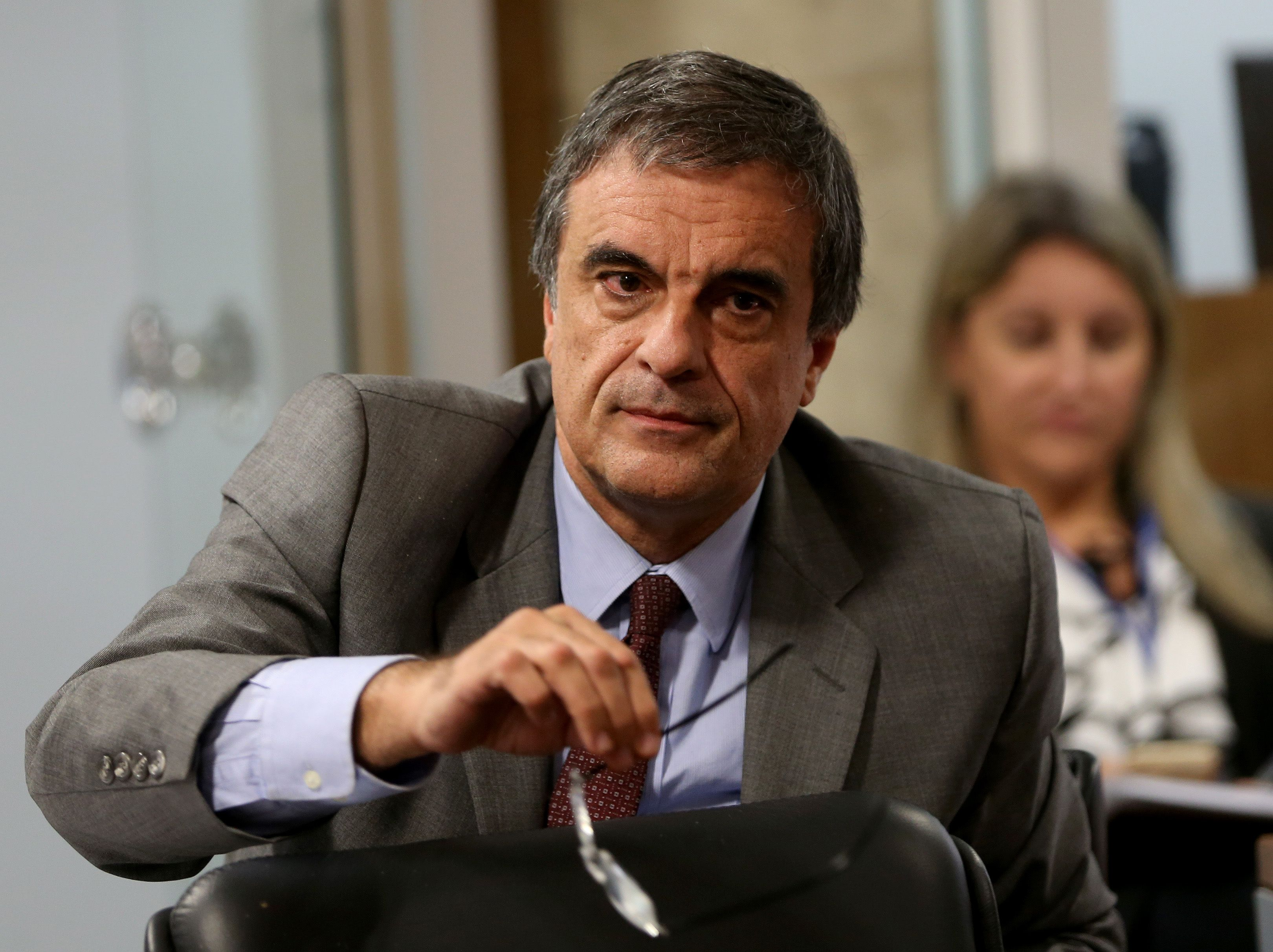 Rousseff's lawyer, José Eduardo Cardozo in Impeachment Committee - 28 June 2016